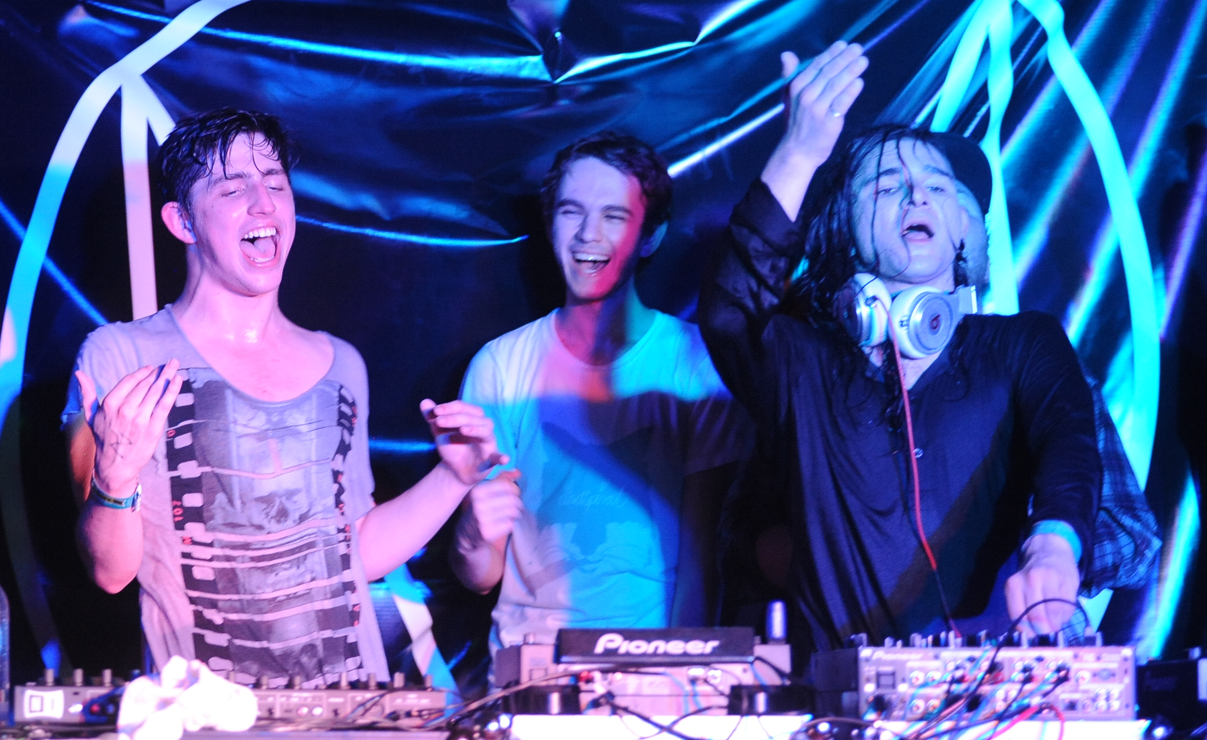 (From left to right) Porter Robinson, Zedd, and Skrillex perform at the 2012 South by Southwest (SXSW) on March 16, 2012.